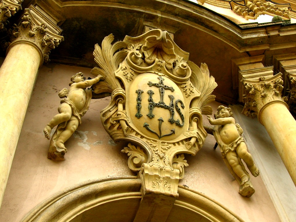 The Church of St. Mary of the Snows in Olomouc, the Czech Republic